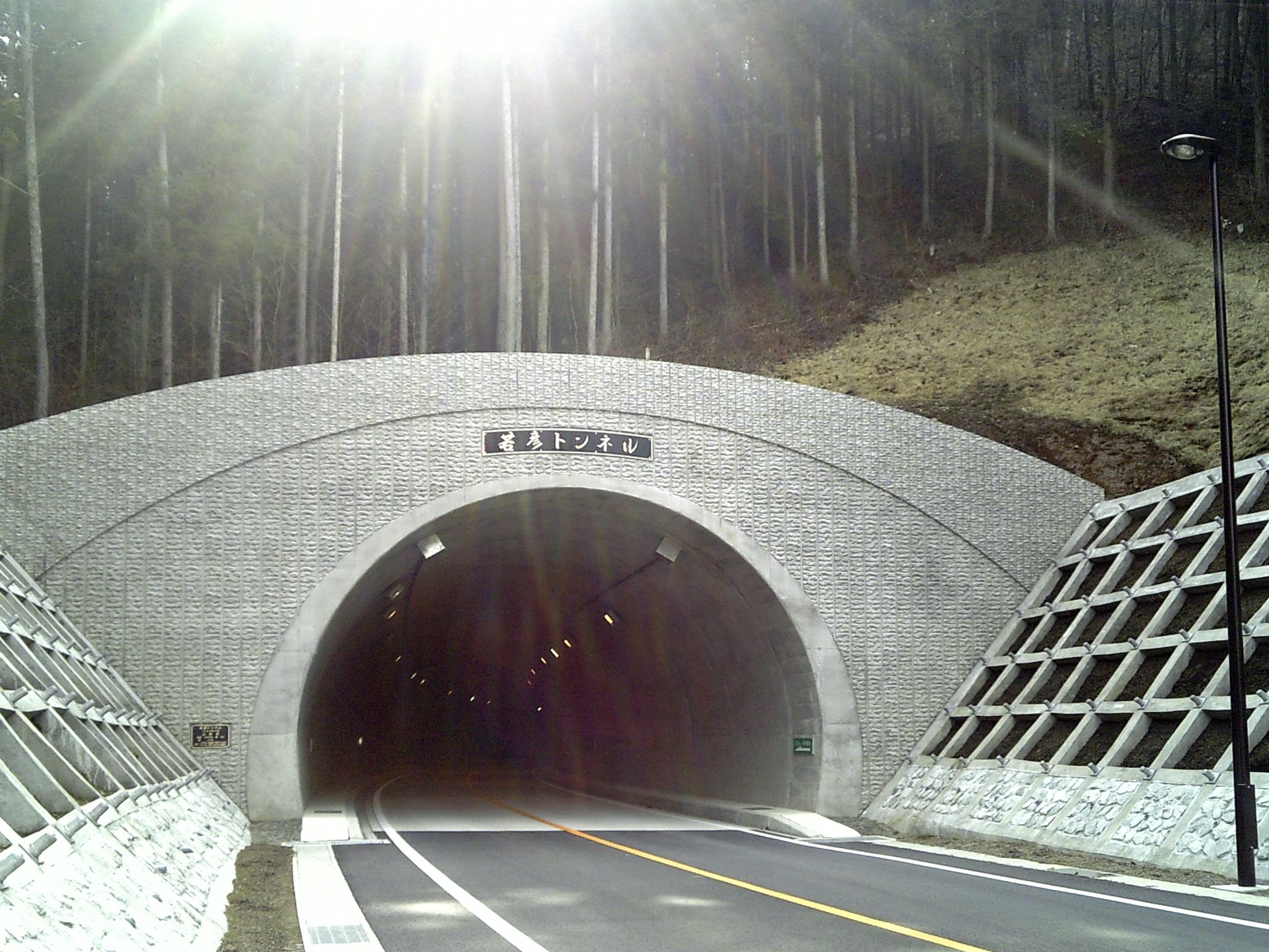 Wakahiko Tunnel north entrance